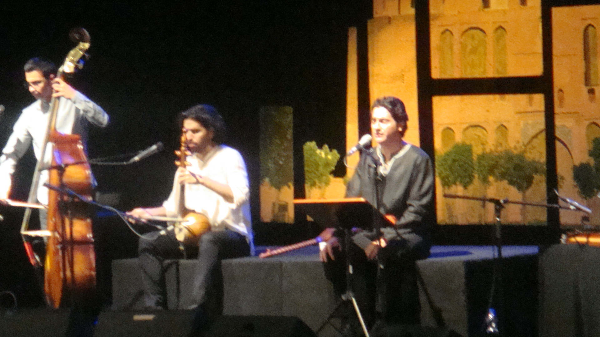 Homayoun Shajarian(Persian classical music vocalist)